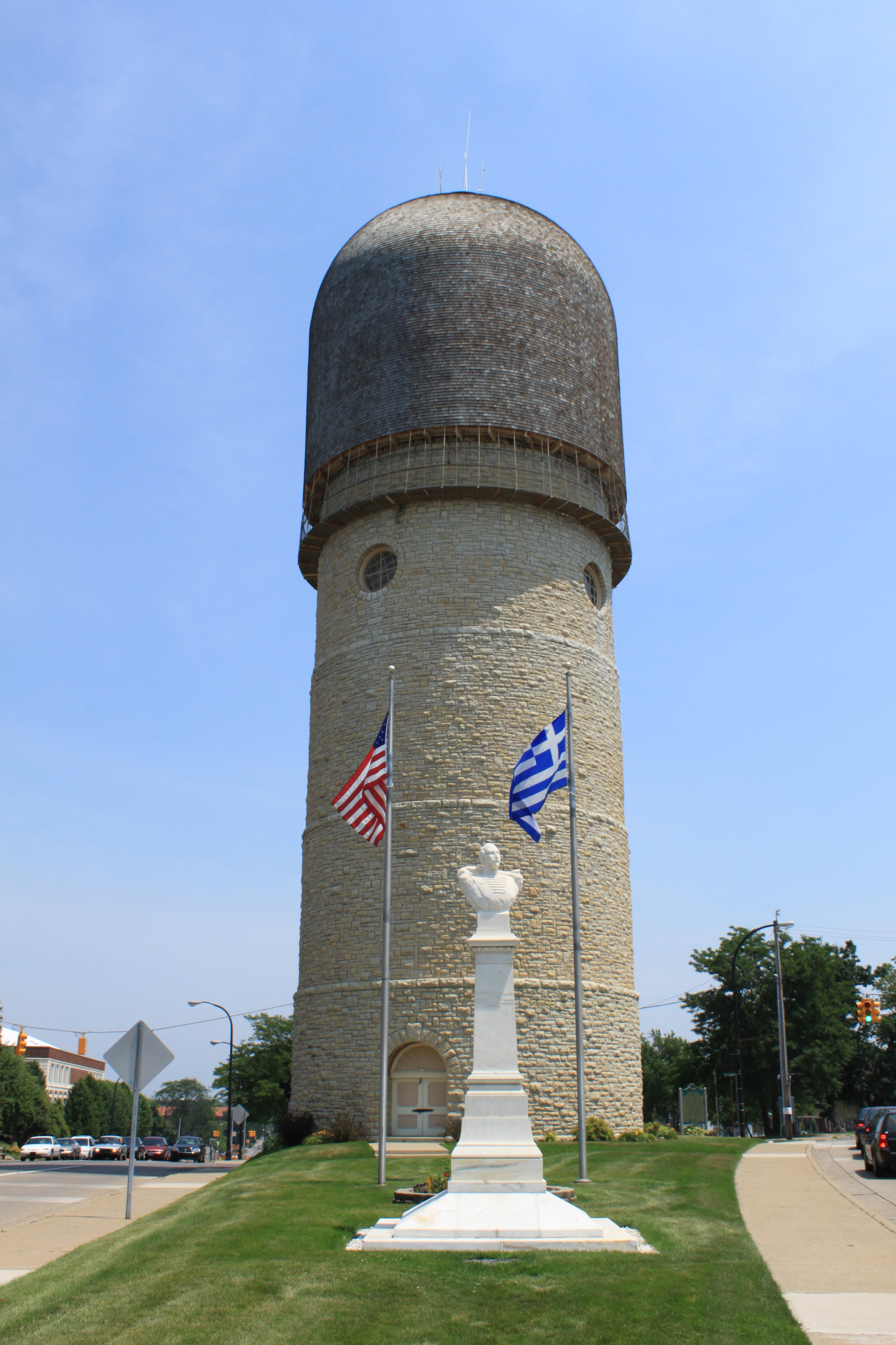 The Ypsilanti Water Tower, at the intersection of Washtenaw Avenue and Cross Street, Ypsilanti, Michigan. The tower is listed in the National Register of Historic Places, and is a National Historic Civil Engineering Landmark. An American flag and a Greek flag are flying, and a bust of the Greek general, Demetrios Ypsilantis (also commonly spelled "Demetrius Ypsilanti"), for whom the city is named, is in the foreground.